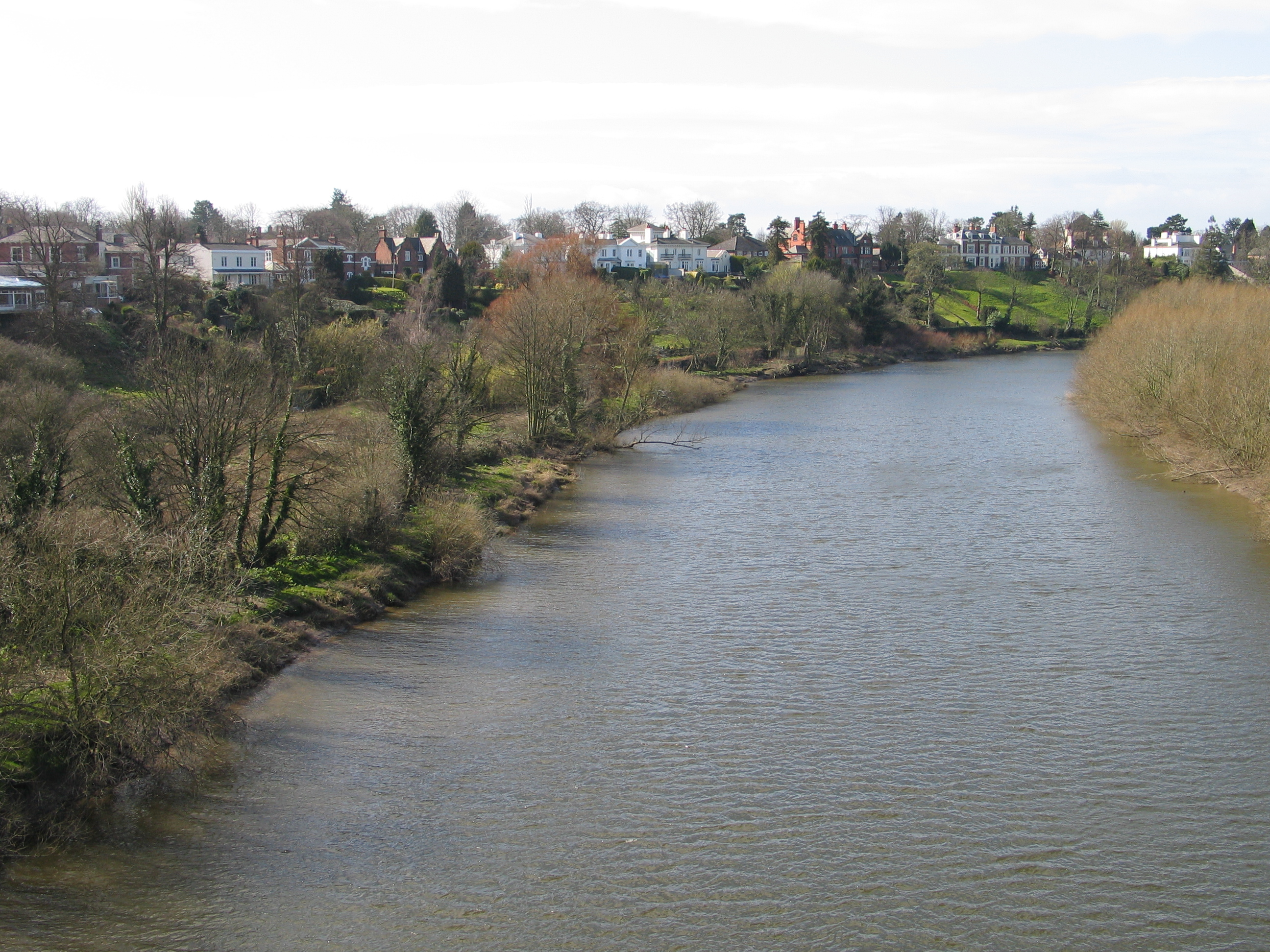 A view of Curzon Park in Chester, taken from the Grosvenor Bridge spanning the River Dee. Photo was taken in Spring at high tide.